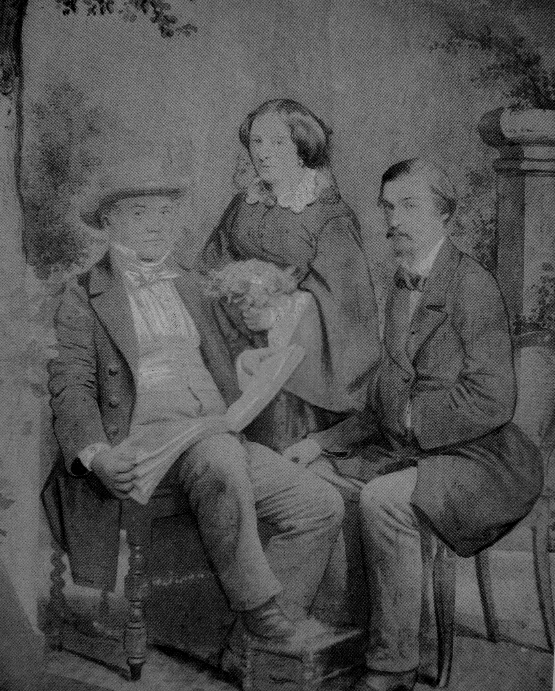 Konstanty Tyszkiewicz (1806-1868), belorussian archaeologist and ethnographer, and his family, 1860s, in Drezden (Saxonia)